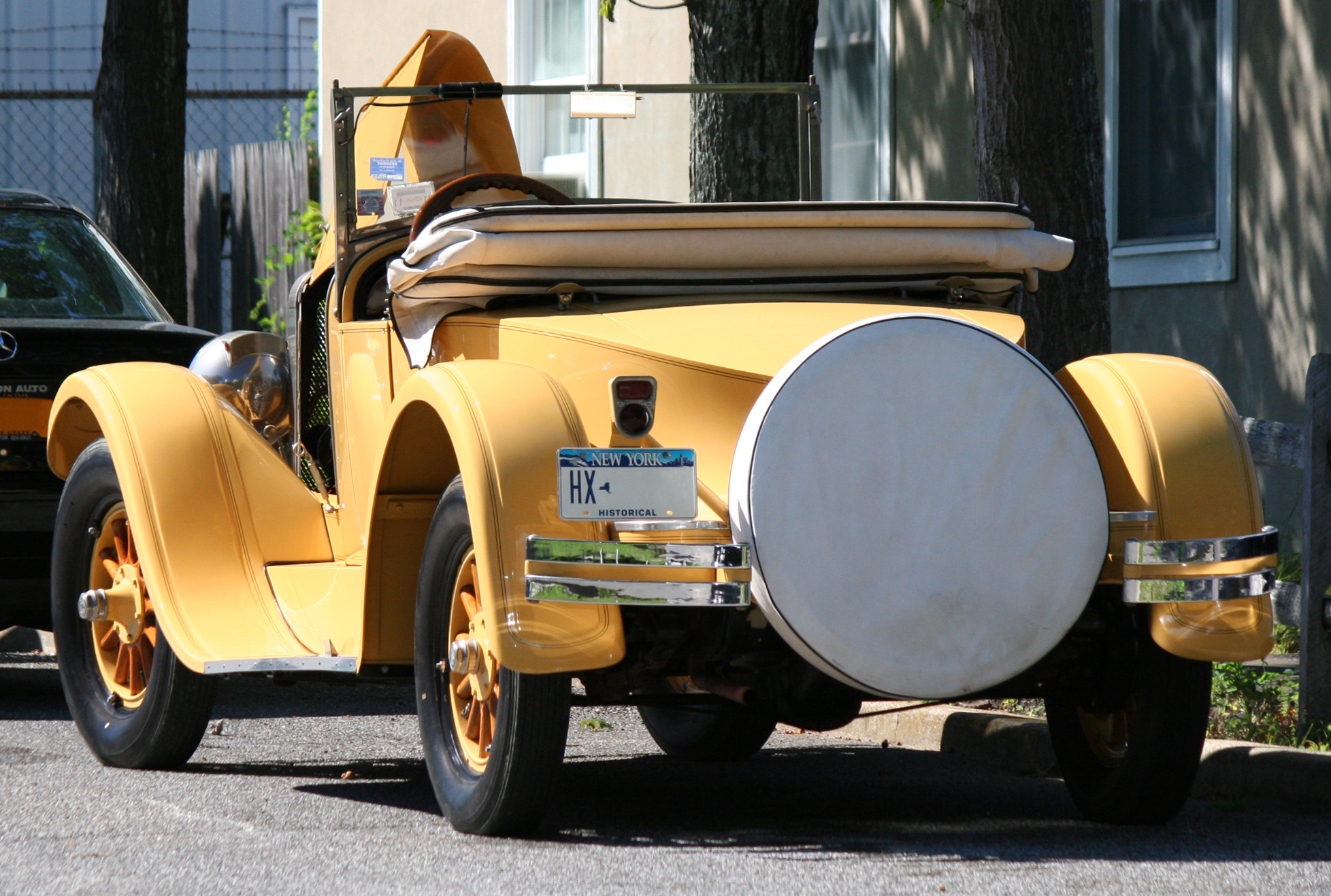 1927 Franklin Boattail Roadster in East Hampton, NY